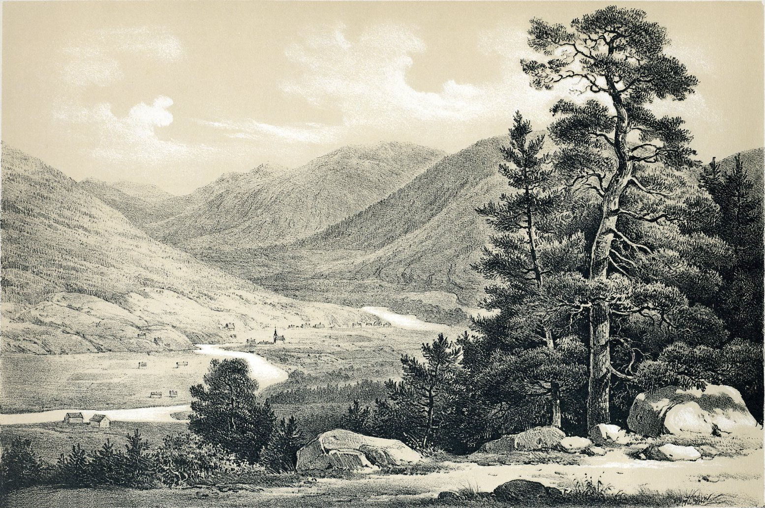 Pictures from the Work "Norge fremstillet i billder" 1848 by Chr. Tønsberg. Førde, Førde municipality, Sogn og Fjordane county, Norway.